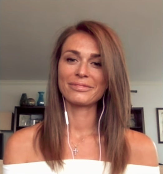 Canadian political commentator Faith Goldy on Alex Jones's InfoWars. Today on the War Room Jake Lloyd and Faith Goldy discuss "weak & dishonest" Justin Trudeau, the public uprising against the migrant crisis; Harrison Smith joins and exposes the absolute destruction of California as a result of their Orwellian public policy, and the motivations behind dishonest journalism and vitriolic hit-pieces.